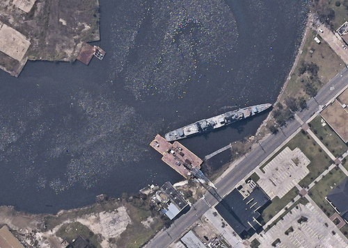 Damage to the former U.S. Navy Gearing-class destroyer USS Orleck (DD-886) from Hurricane Rita at Orange, Texas (USA), on 5 October 2005. After decommissioning Orleck was transferred to Turkey in 1987. On 12 August 2000, the Turkish government transferred the destroyer to the Southeast Texas War Memorial and Heritage Foundation at Orange, Texas, for use as a memorial and museum under her old name, USS Orleck. When Hurricane Rita stuck the Texas coast in September 2005, Orleck was severely damaged. After repairs, Orleck was ready to return to her pier at Ochiltree-Inman Park; however, the City of Orange refused to allow her to return. Orleck was temporarily relocated to Levingston Island. The Orleck Foundation then decided to move the ship to the Calcasieu River in Lake Charles, Louisiana.